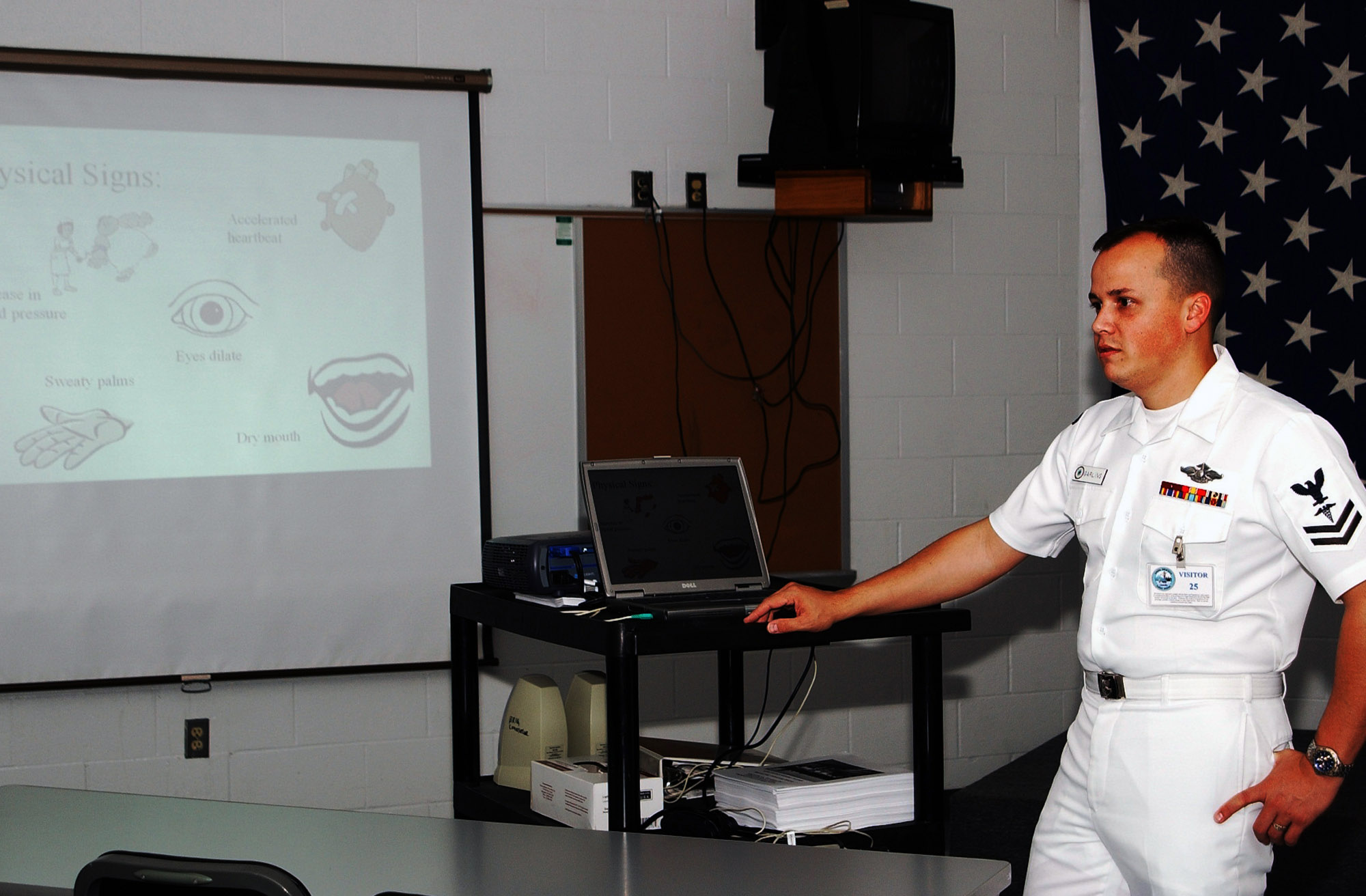 SILVERDALE, Wash. (July 19, 2007) - Hospital Corpsman 2nd Class Joseph Garling, assigned to Naval Hospital Bremerton, teaches Sailors about anger management at the Bangor Naval Brig Correctional Custody Unit. U.S. Navy photo by Mass Communication Specialist 2nd Class Maebel Tinoko (RELEASED)